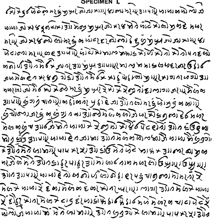 A specimen in Jaunsari Takri